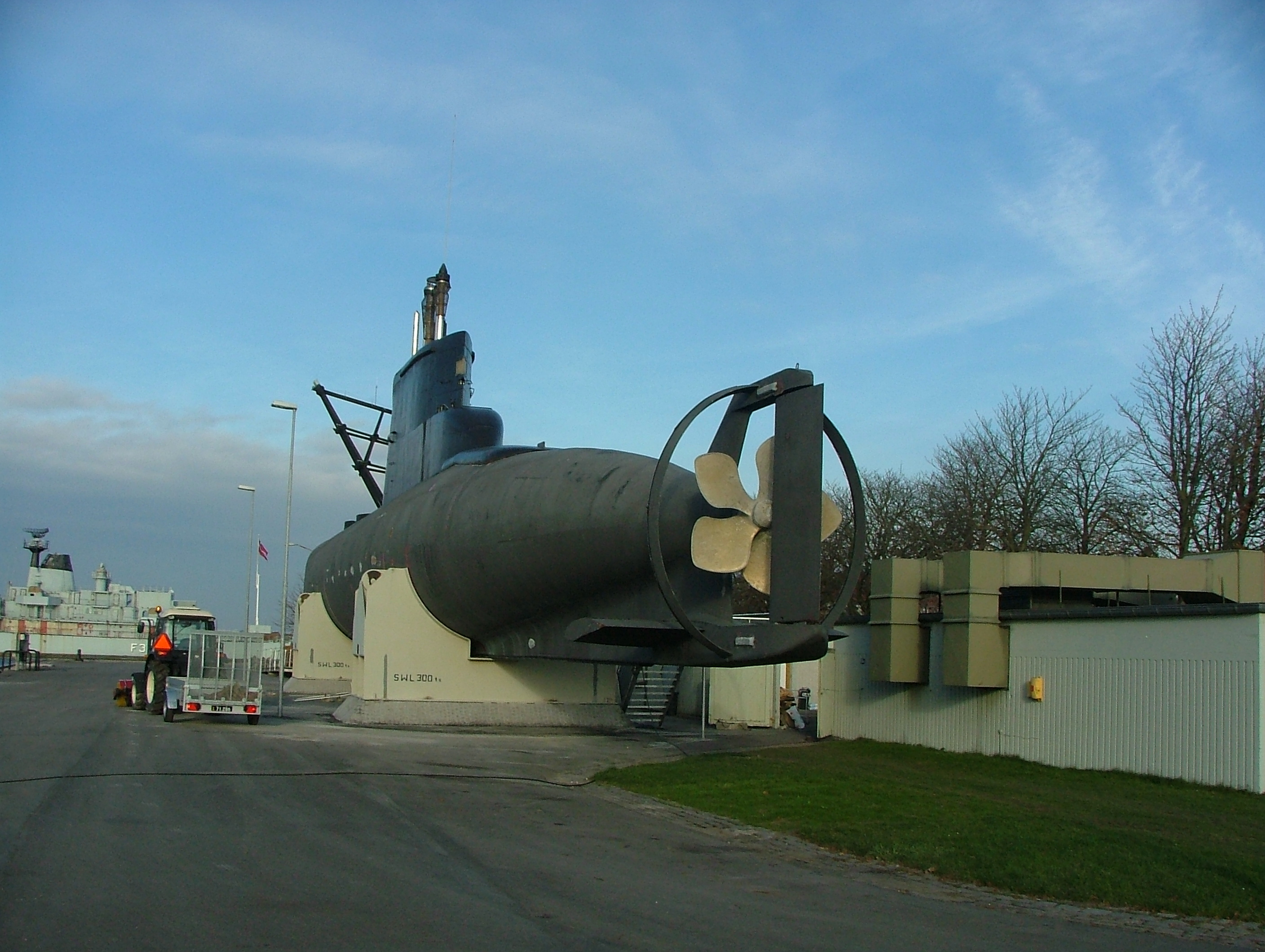 Photos from the former Naval Base Copenhagen: Submarine "Sælen". Now a museum Photo by Jan Kronsell, 2005